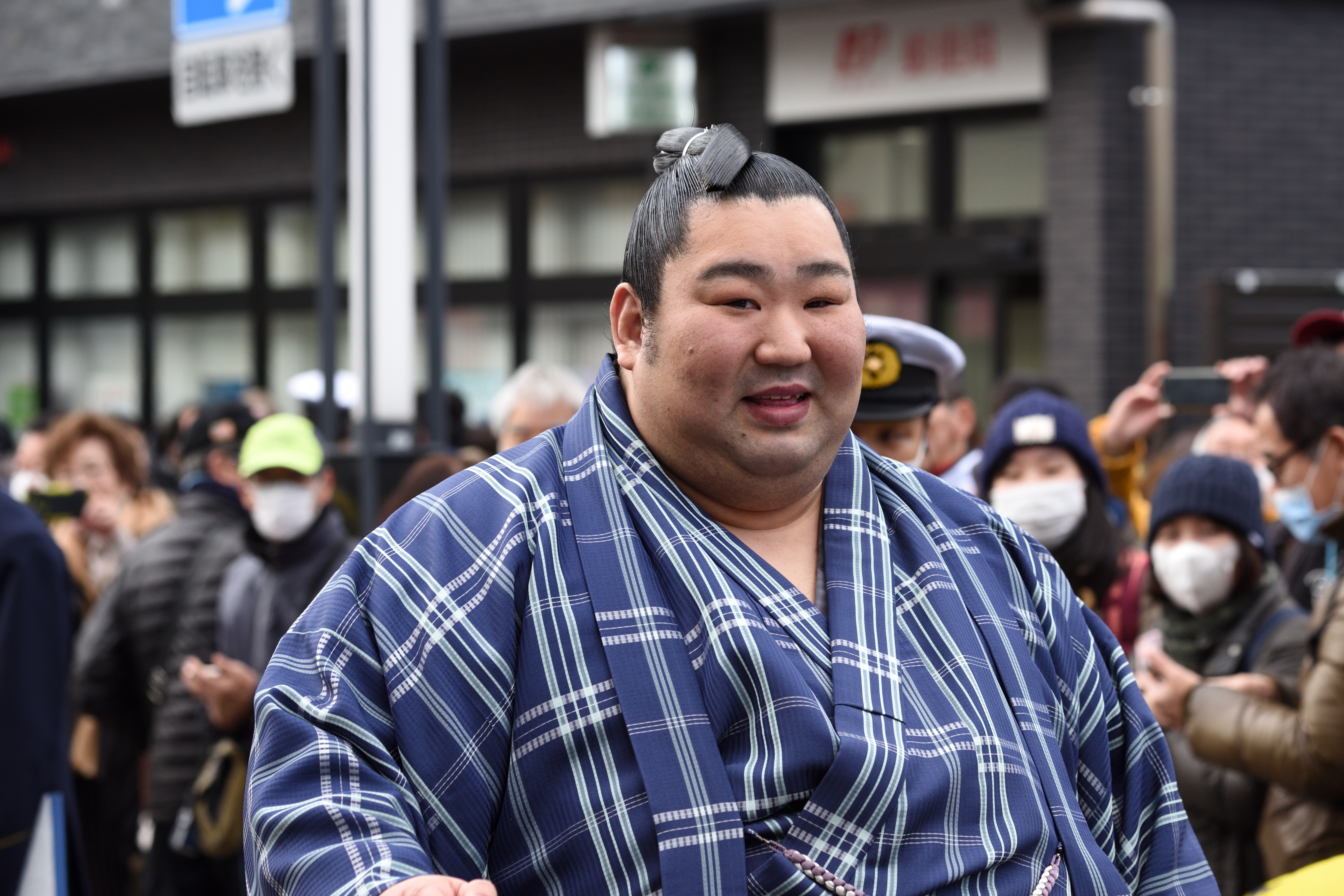 Makoto Tokushoryu, the winner of the first grand tournament of 2020, at Sanjo Street, Nara